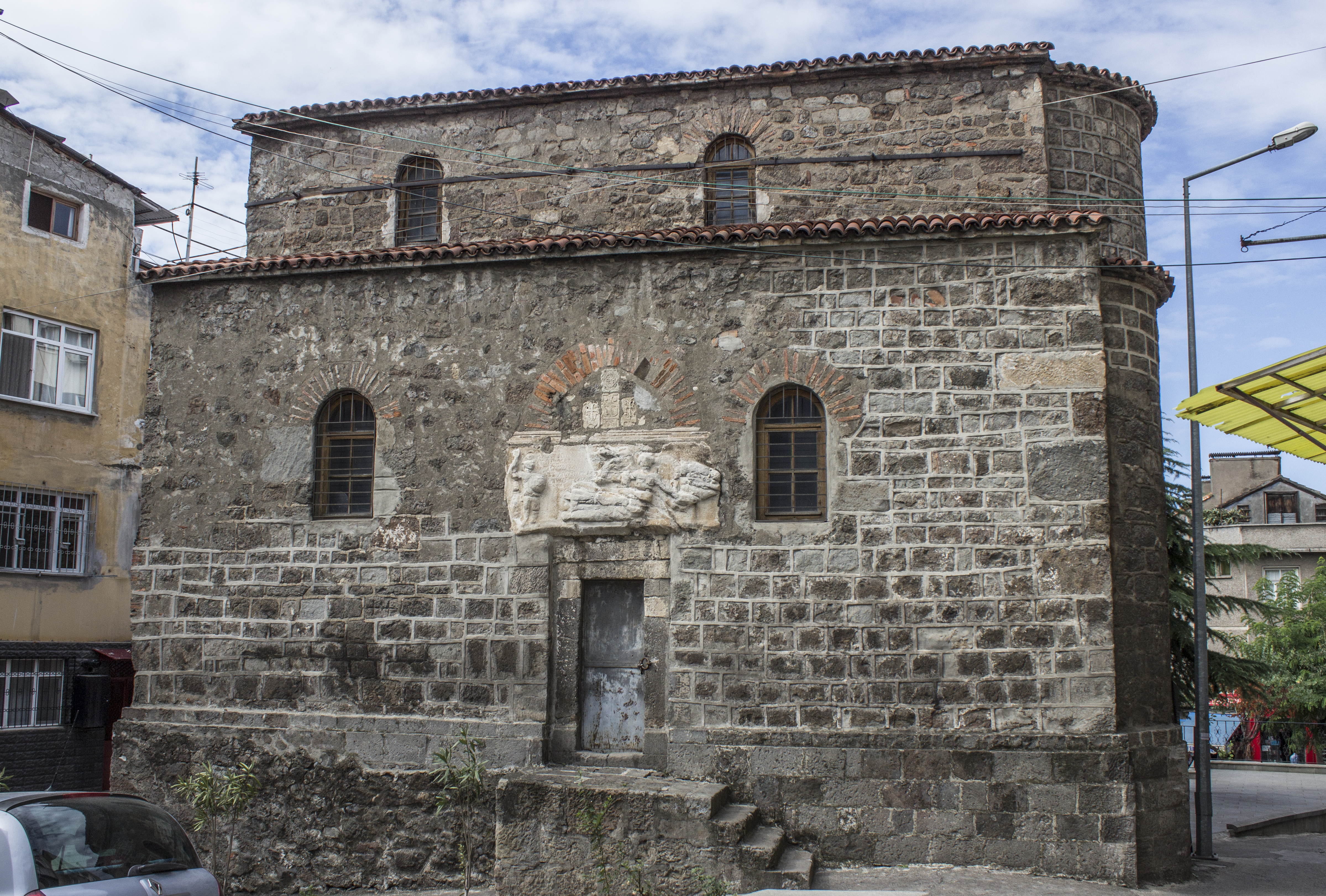 9th century Armenian church in Trabzon, Turkey